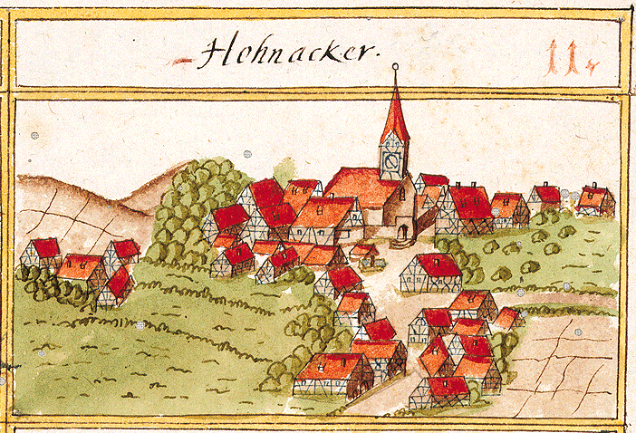 View of Hohenacker, Waiblingen, from the forest register books created by Andreas Kieser